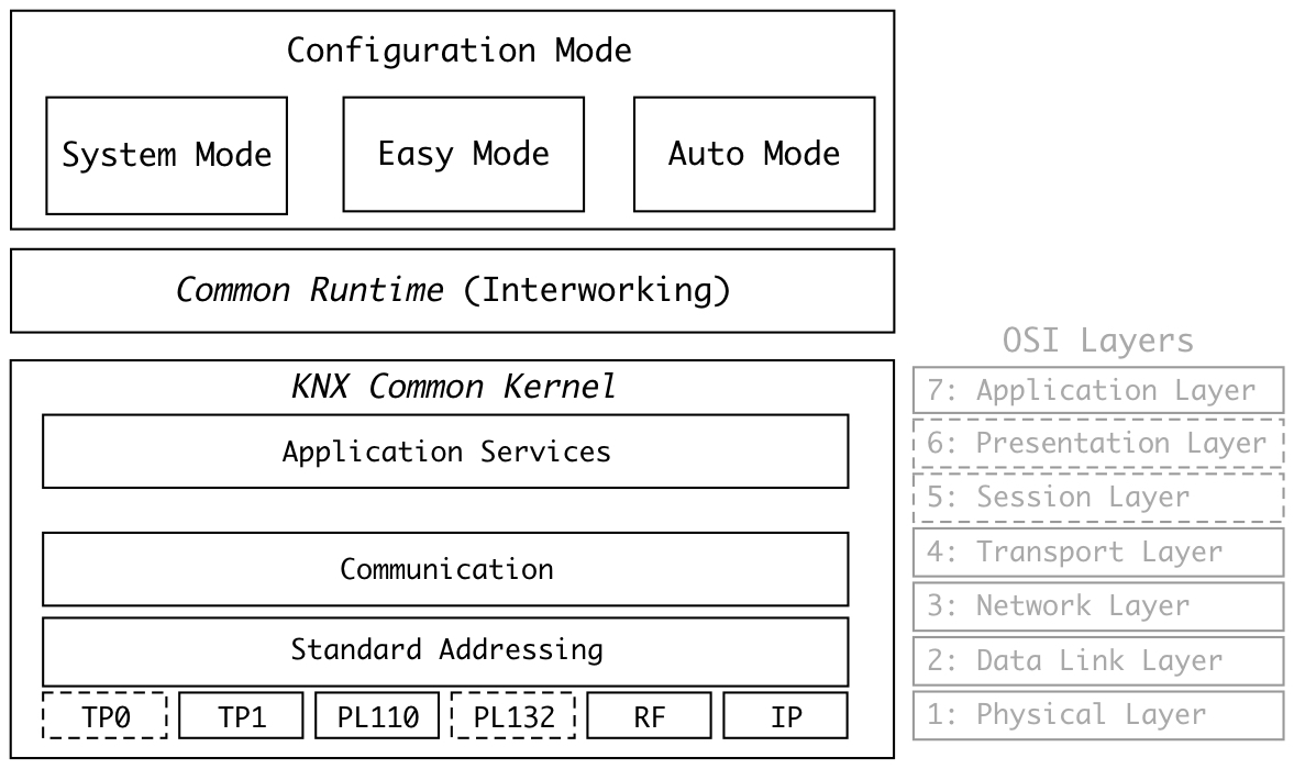 Logical model of the KNX protocol